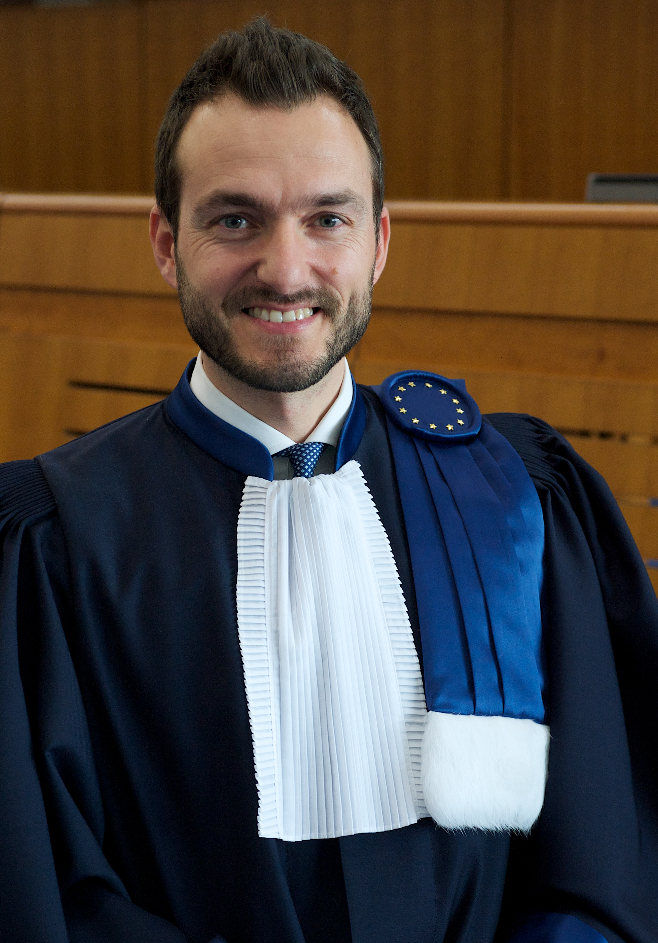 Picture of Judge Robert Spano